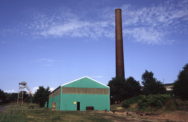 Cydweli Industrial Museum. Former tinplate works with preserved steam engine and a re-erected colliery headgear and winding engine from Morlais